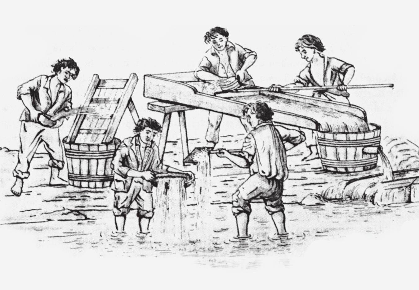 Gold-panner Roma (“Rudari”/“Aurari”/“Bayash”) at work. Drawing